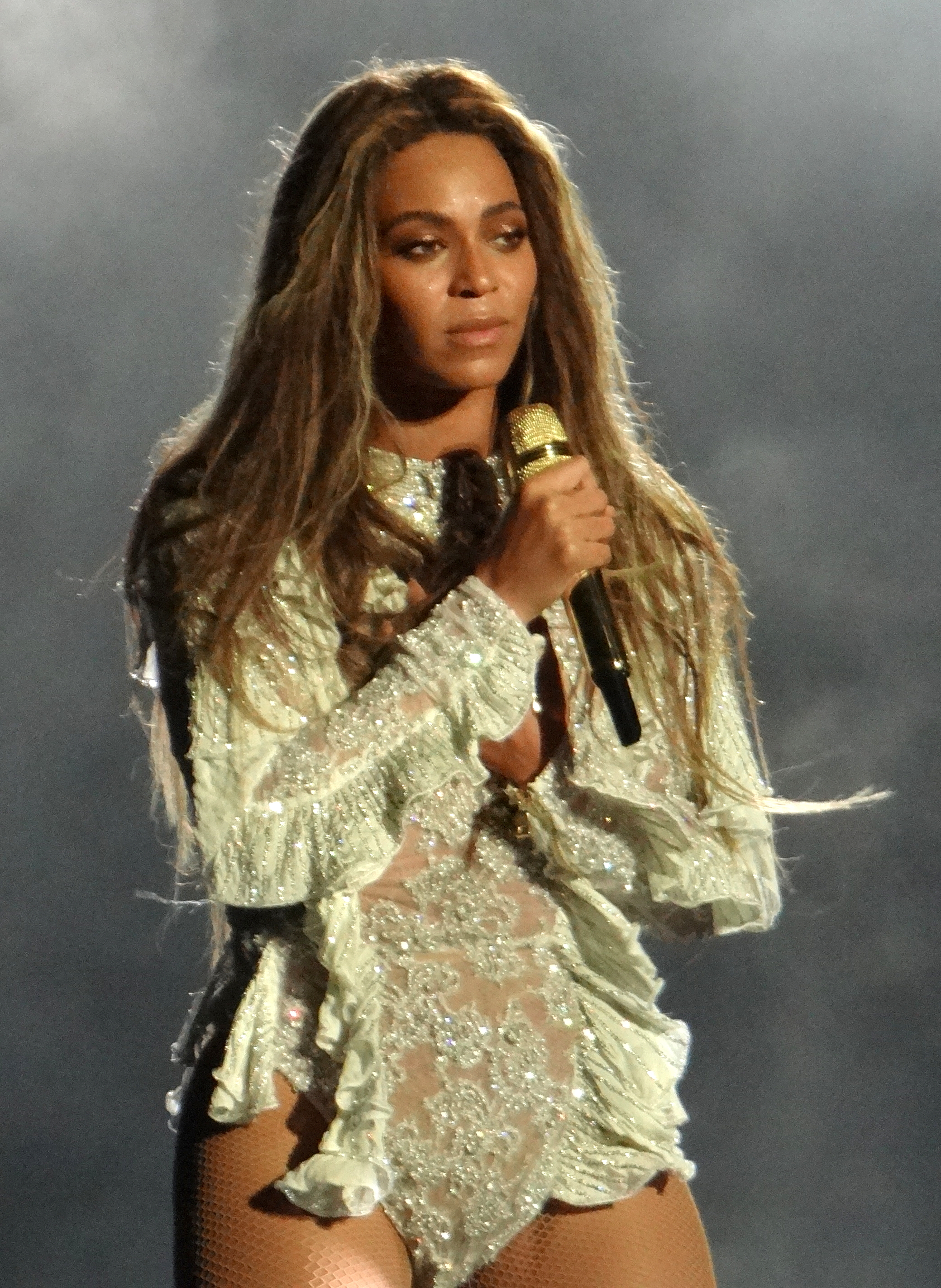 Beyoncé performing during The Formation World Tour in Raleigh, North Carolina on May 3, 2016